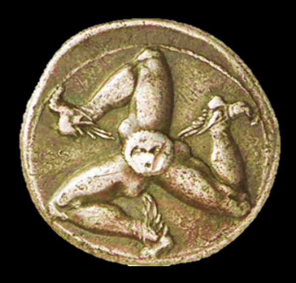 Triscele moneta Agatocle: ritaglio da immagine moneta agatoclea